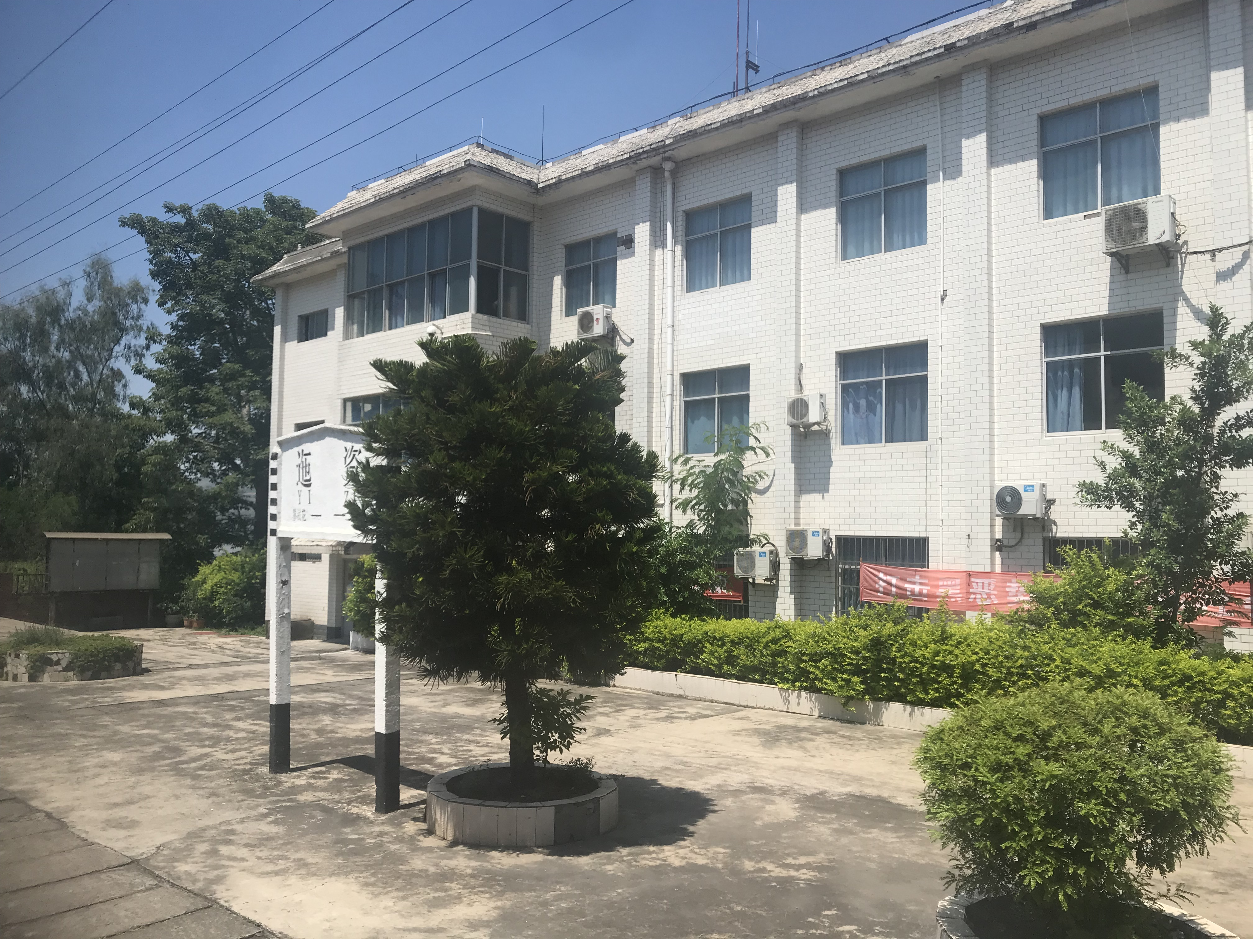 201908 Station Building of Yizi